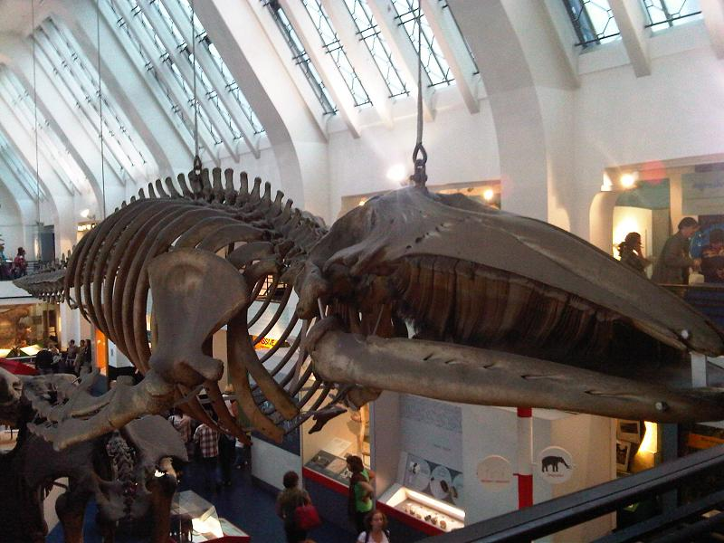 Gray whale (Eschrichtius robustus) skeleton at the Natural History Museum in London, England.